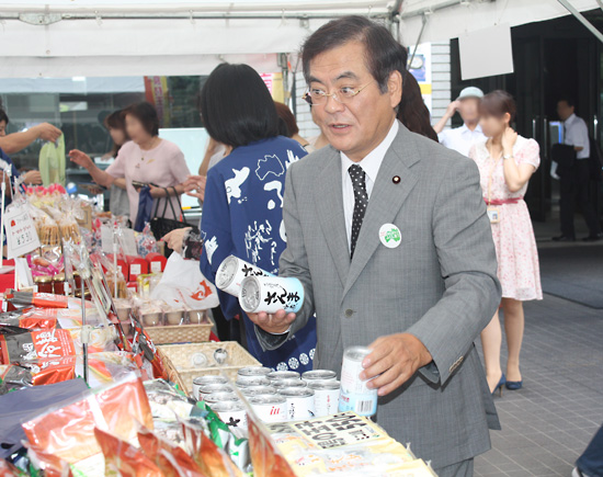 Yoshio Hachiro, Minister of Economy, Trade and Industry, inspected the fair in support of the disaster stricken area at the Ministry of Economy, Trade and Industry in Chiyoda Ward, Tōkyō Metropolis on September 7, 2011.(For terms of use, see 利用規約（METI/経済産業省）.)